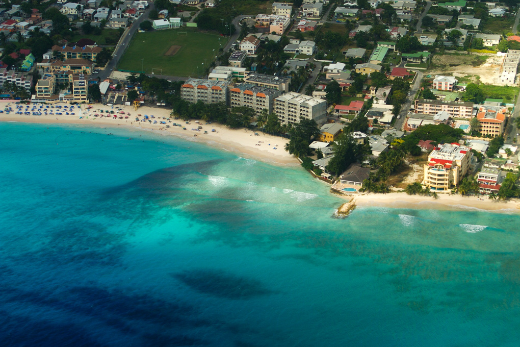 Aerial view of Dover beach in Barbados in the West Indies showing the blue waters, sandy shore and hotels and apartments inland